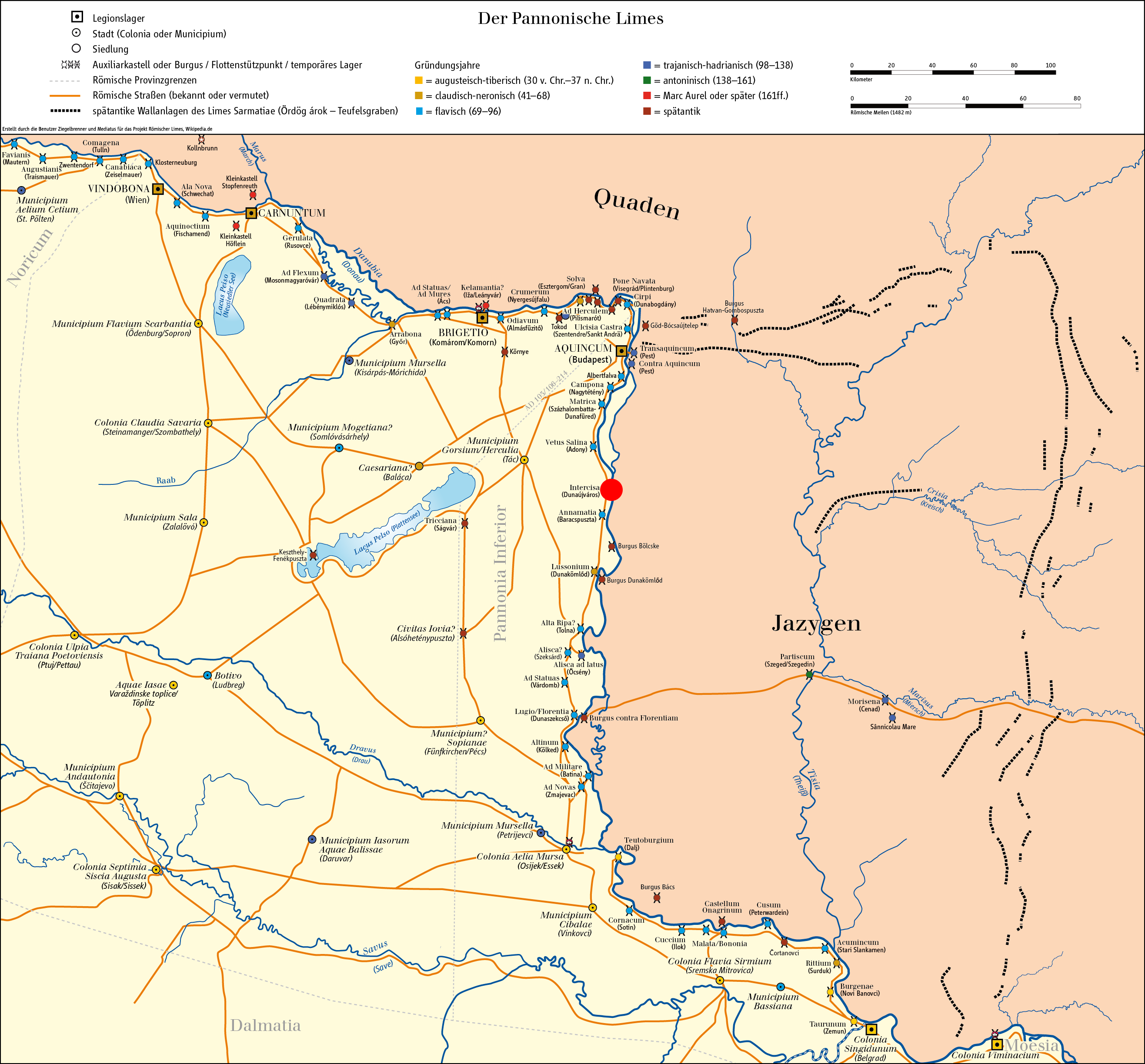 Map of Limes in Austria, Slovakia, Hungary, Croatia and Serbia. Intercisa marked as red dot.